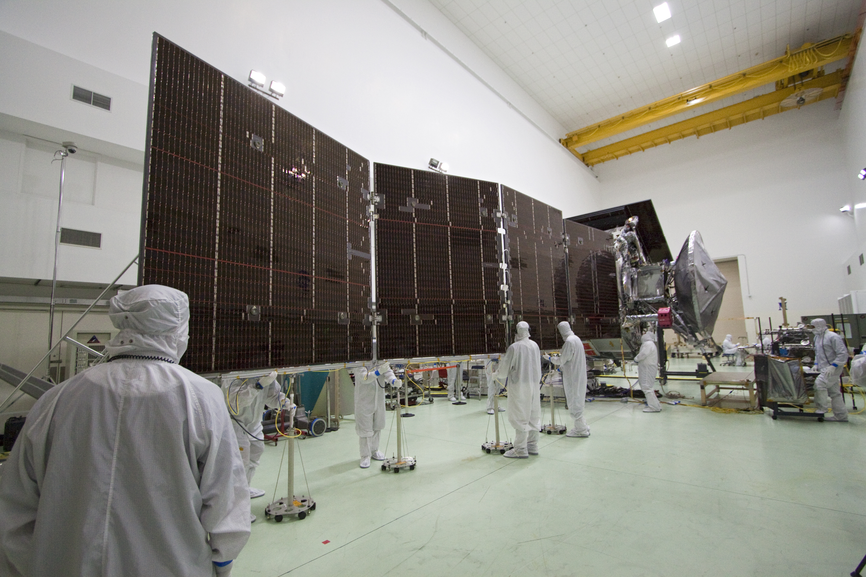 CAPE CANAVERAL, Fla. -- In a clean-room environment at Astrotech's payload processing facility in Titusville, Fla., technicians conduct deployment tests on solar array panels for NASA's Juno spacecraft prior to illumination testing. Juno is scheduled to launch aboard a United Launch Alliance Atlas V rocket from Cape Canaveral, Fla. Aug. 5.The solar-powered spacecraft will orbit Jupiter's poles 33 times to find out more about the gas giant's origins, structure, atmosphere and magnetosphere and investigate the existence of a solid planetary core. For more information visit